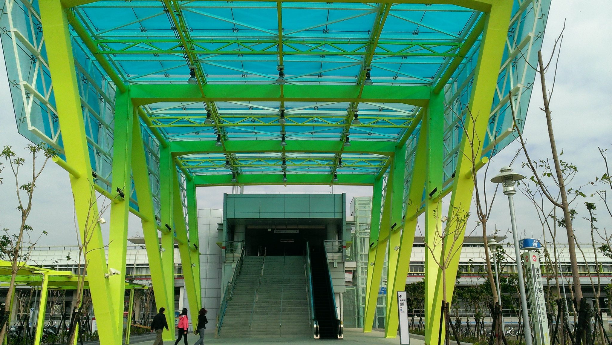 Exit 1, Gangshan South Station, Kaohsiung MRT.中文（台灣）: 高雄捷運南岡山站1號出口。